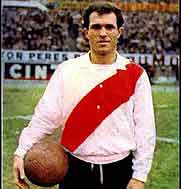 This is a photograph of Ermindo Onega taken during his time with River Plate in Argentina. He played his last game for the club in 1968